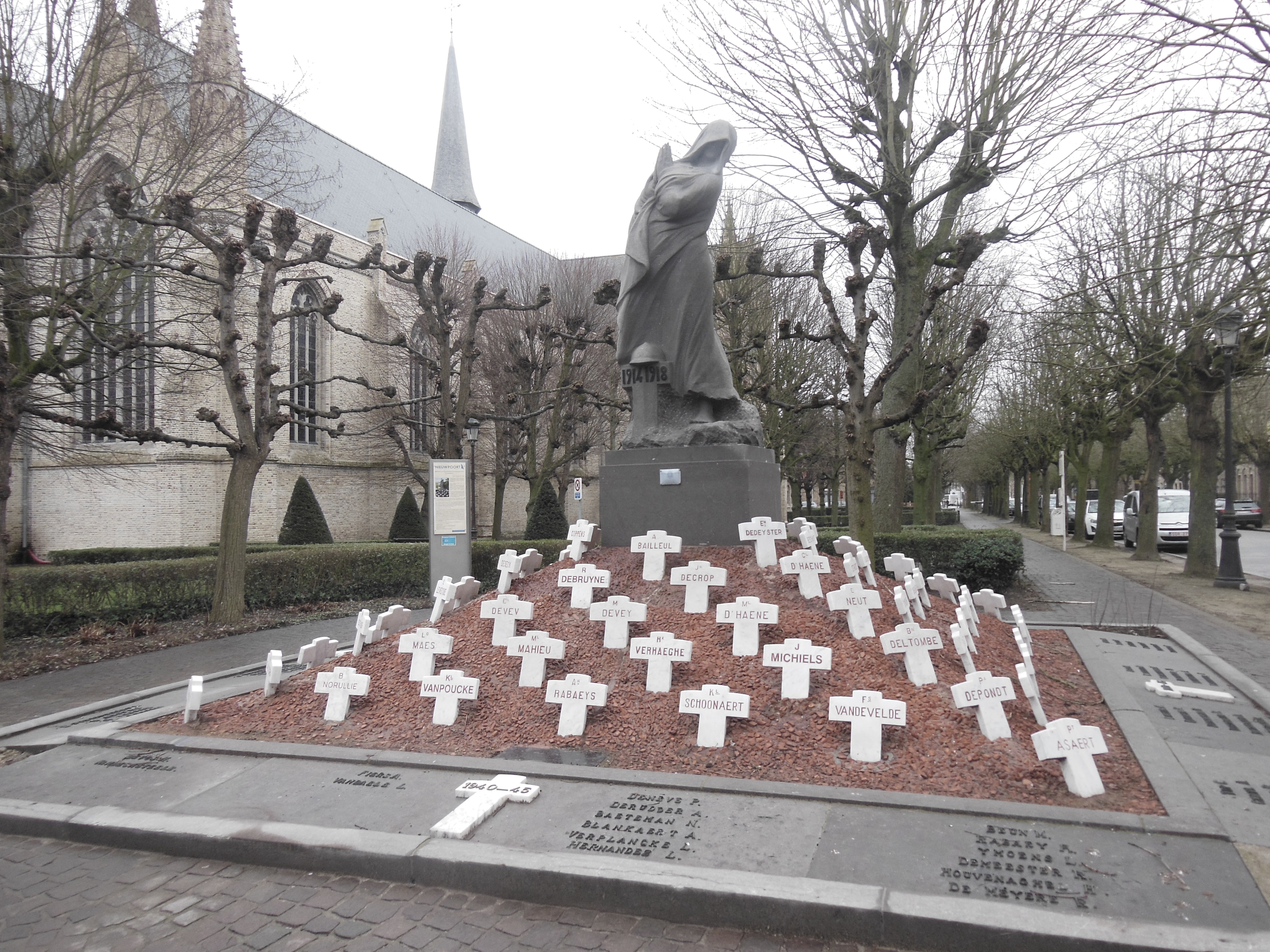 A memorial built to honour the fallen of World War I